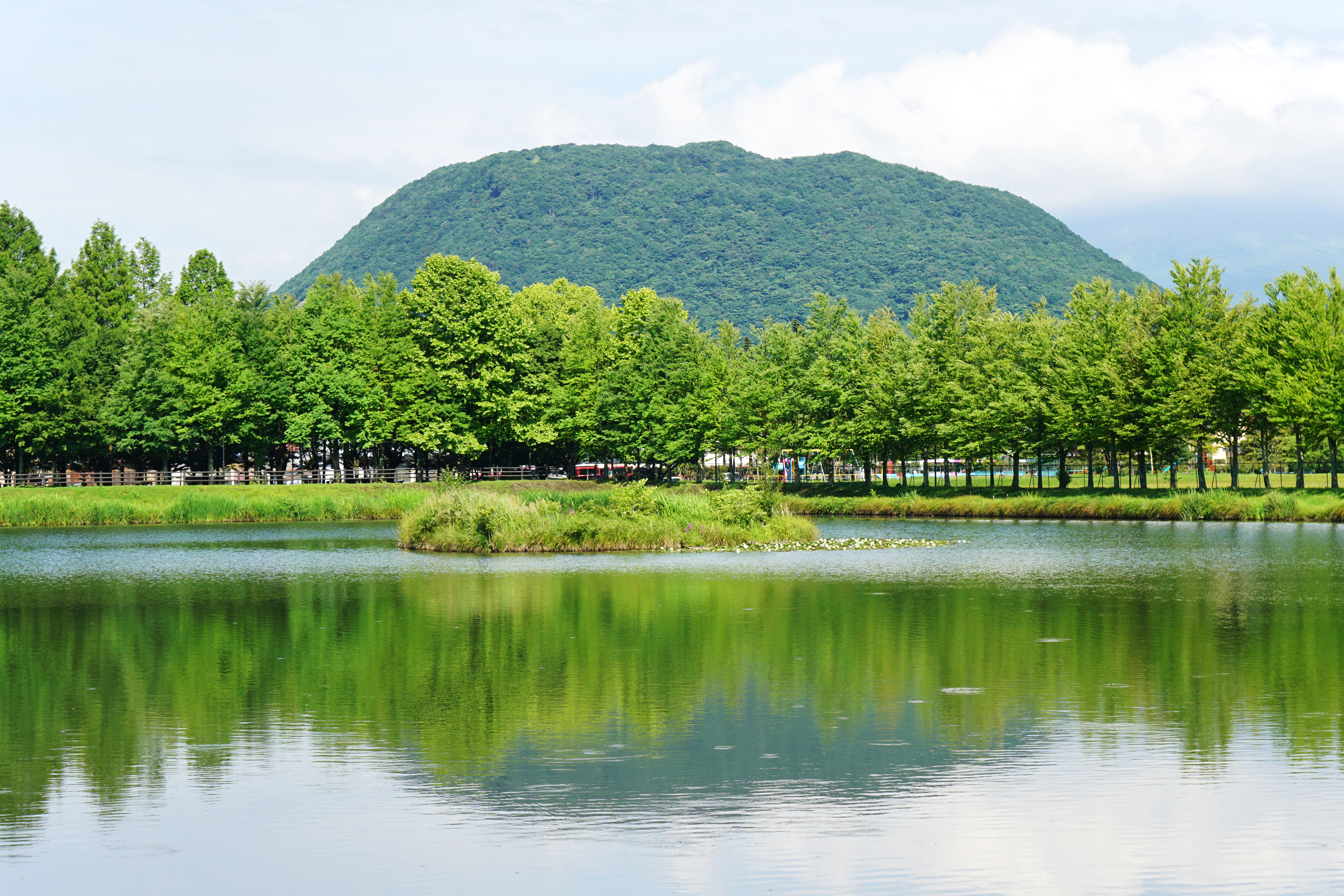 Mount Hanare in Karuizawa, Nagano prefecture, Japan.